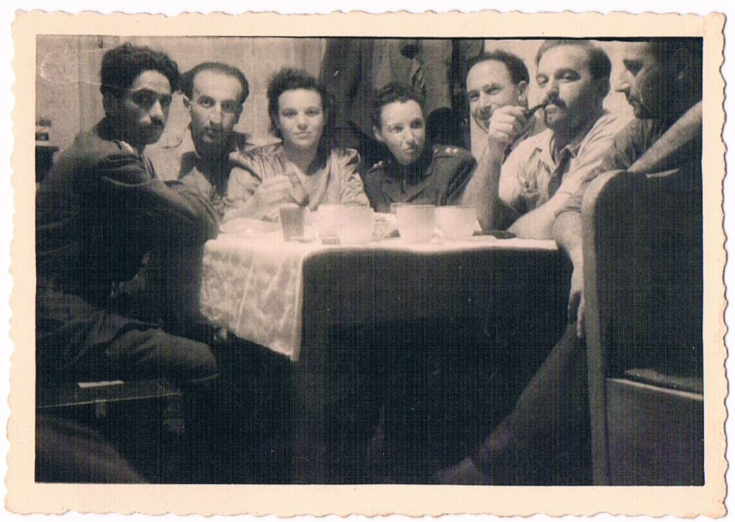 Jacob (Eugene, Jean) Salomon, commander of Ha'Haganah in east Europe with Czechoslovak officers, Czechoslovakia, 1948